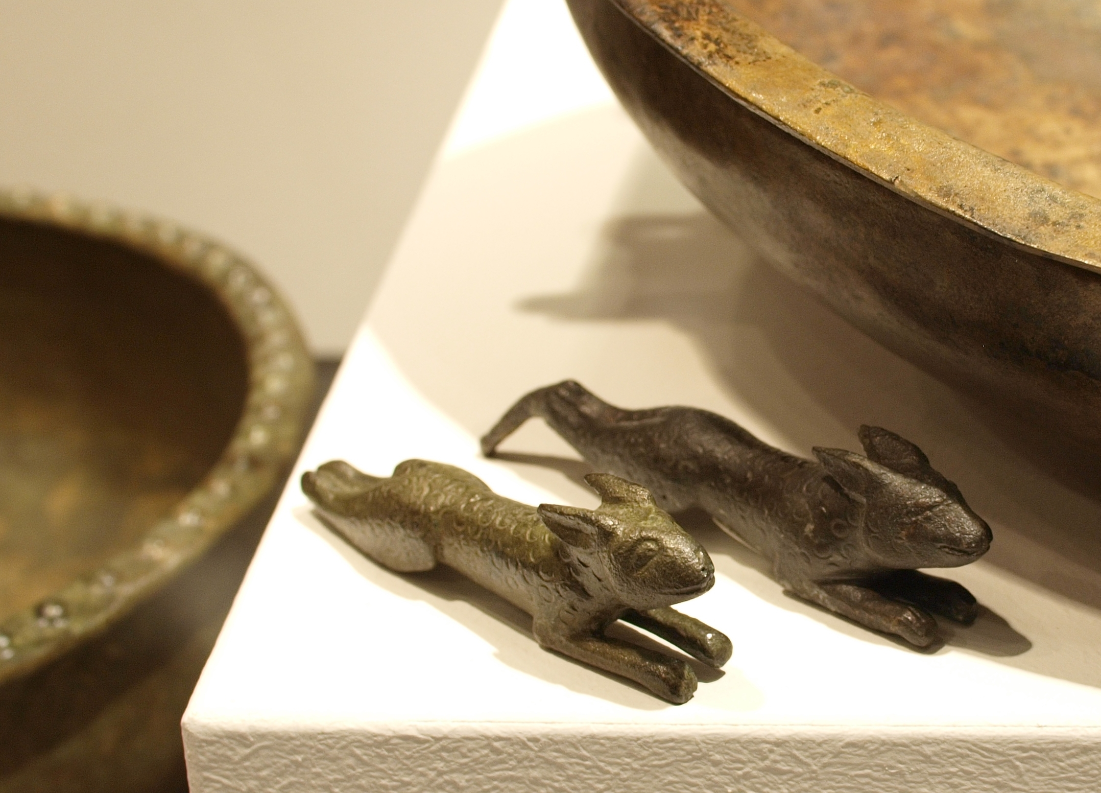 Etruscan Hares : 560-550 BCE, Brolio, - Valle di Chiana, Italy. ( exhibition on etruscan jewellery at the Rijksmuseum van Oudheden in Leiden, Netherlands)